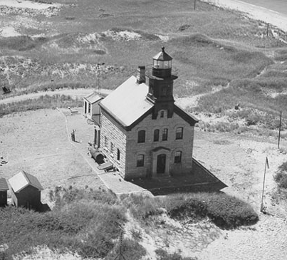 undated United States Coast Guard photograph of Block Island North Light